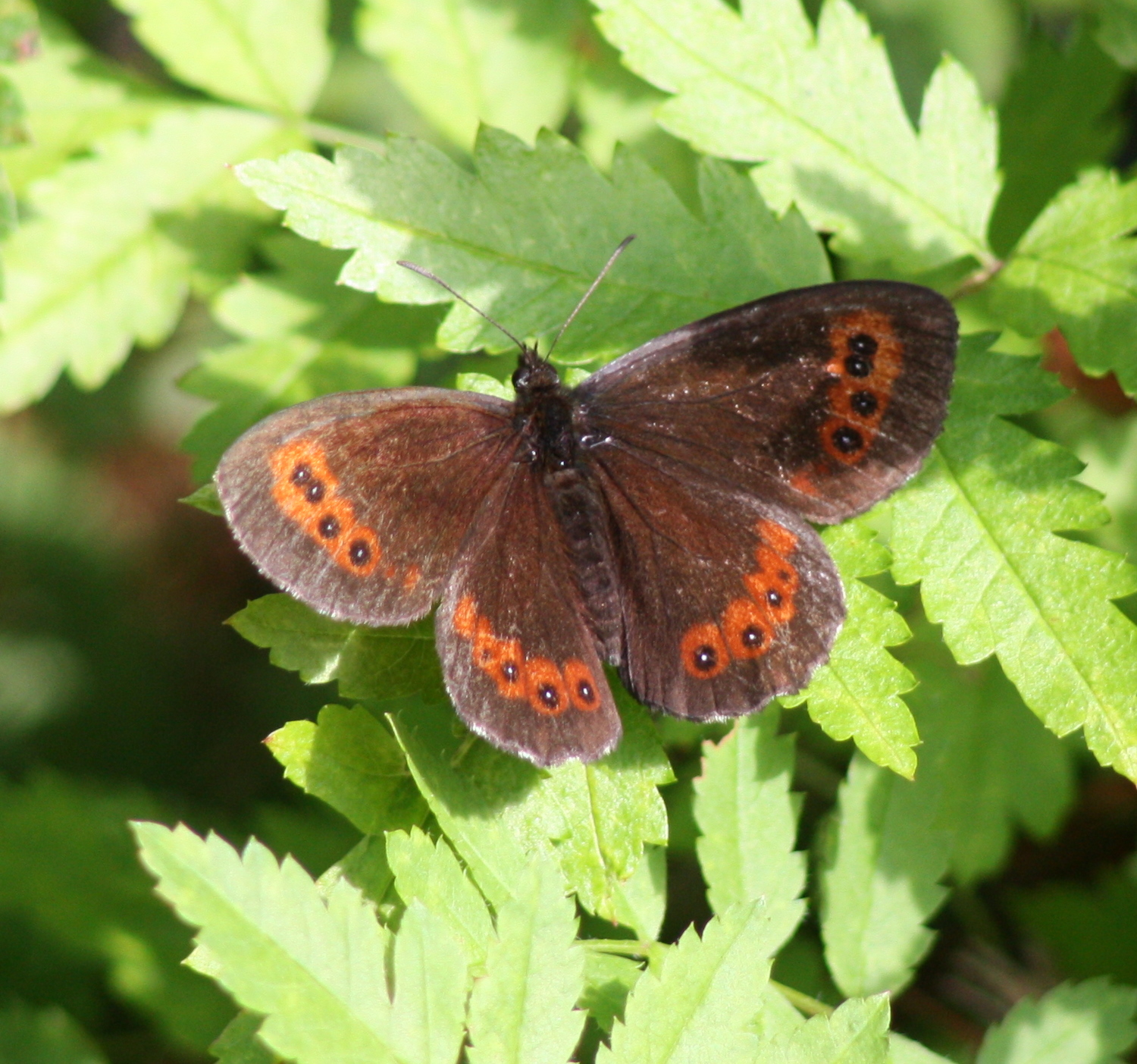 Arran Brown (Erebia ligea) in Haukipudas, Finland.